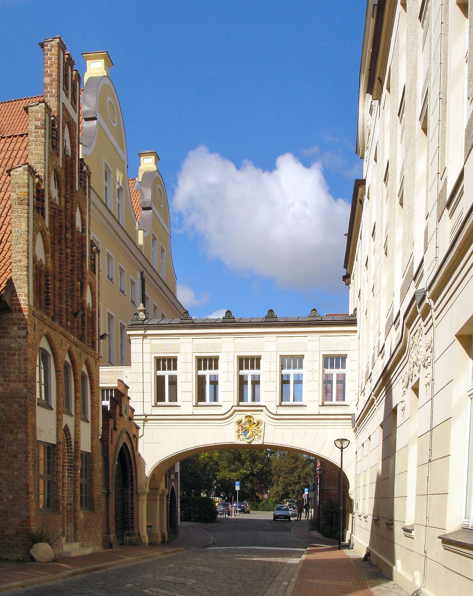 Hinter dem Rathaus Rostock / Behind the Town Hall of Rostock